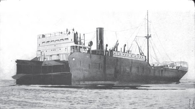 SS Liberty Glo after her collision with a mine, December 1919. The mine broke the ship in two but the after part of the vessel remained afloat, drifting ten miles back to shore to be later repaired and returned to service.